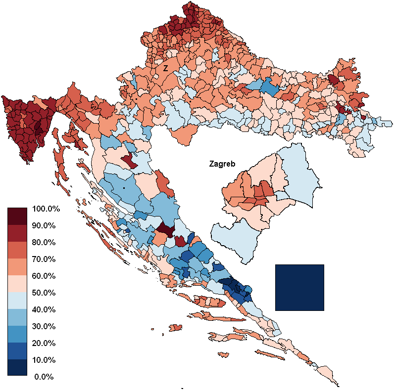 Croatian presidential election, 2009–2010, results of the 2nd round by municipalities - votes for Josipović